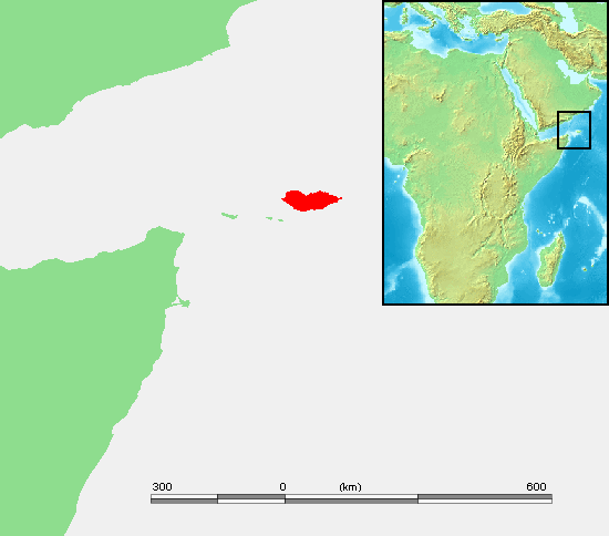 Location of Socotra Island